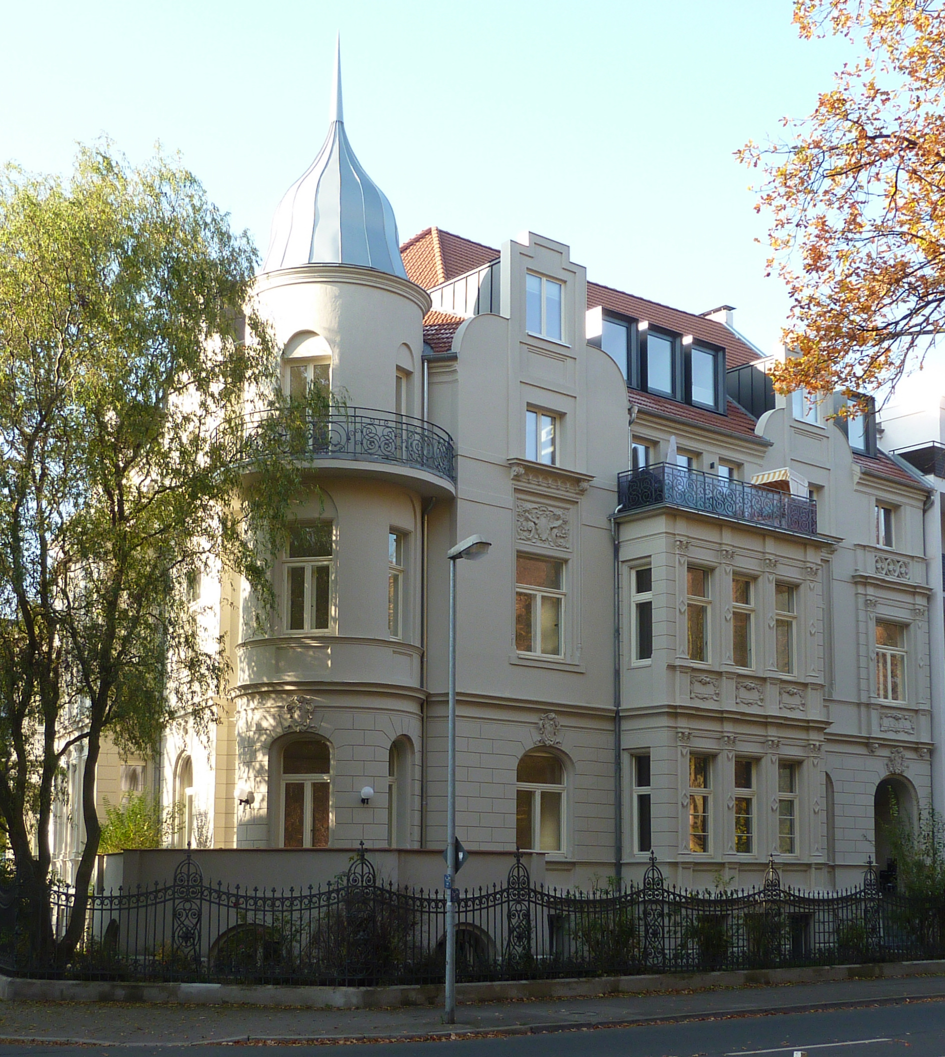 Hohenzollernstraße 40, Oststadt, Hannover, "Villa Waldersee"